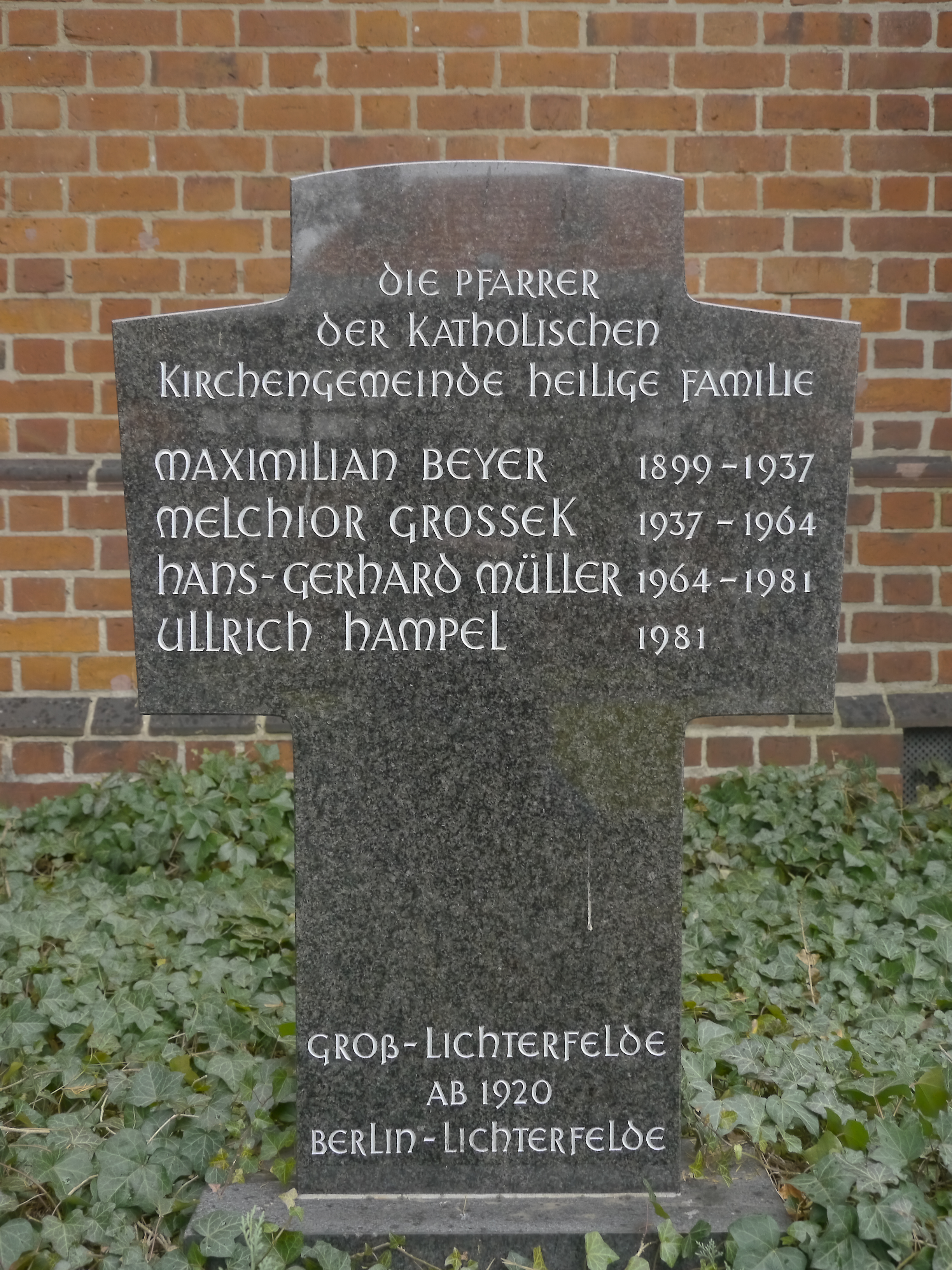 Memorial cross with the names of the first four priests which have been responsible for the parish Heilige Familie in Berlin-Lichterfelde